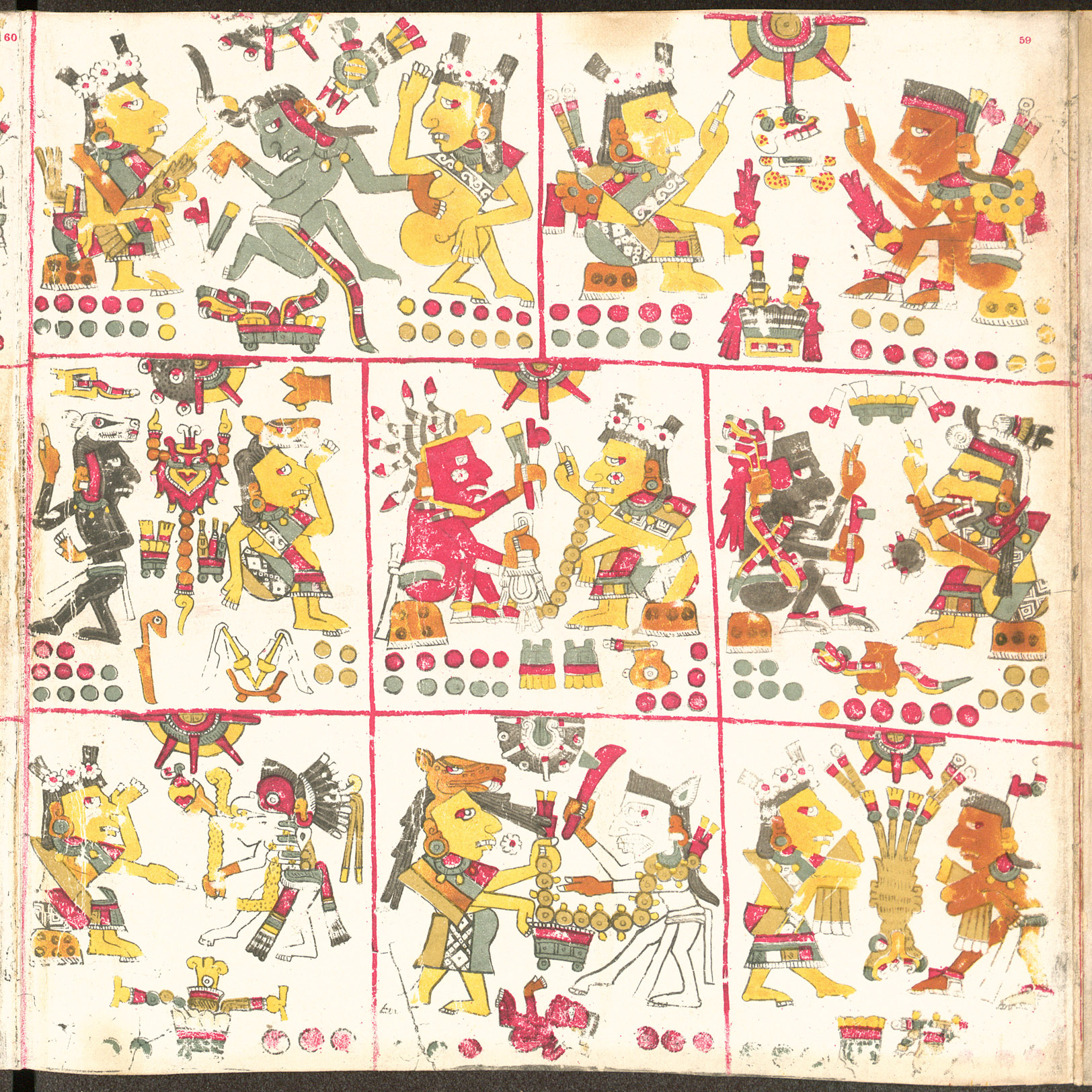 Page 59 of the Codex Borgia.